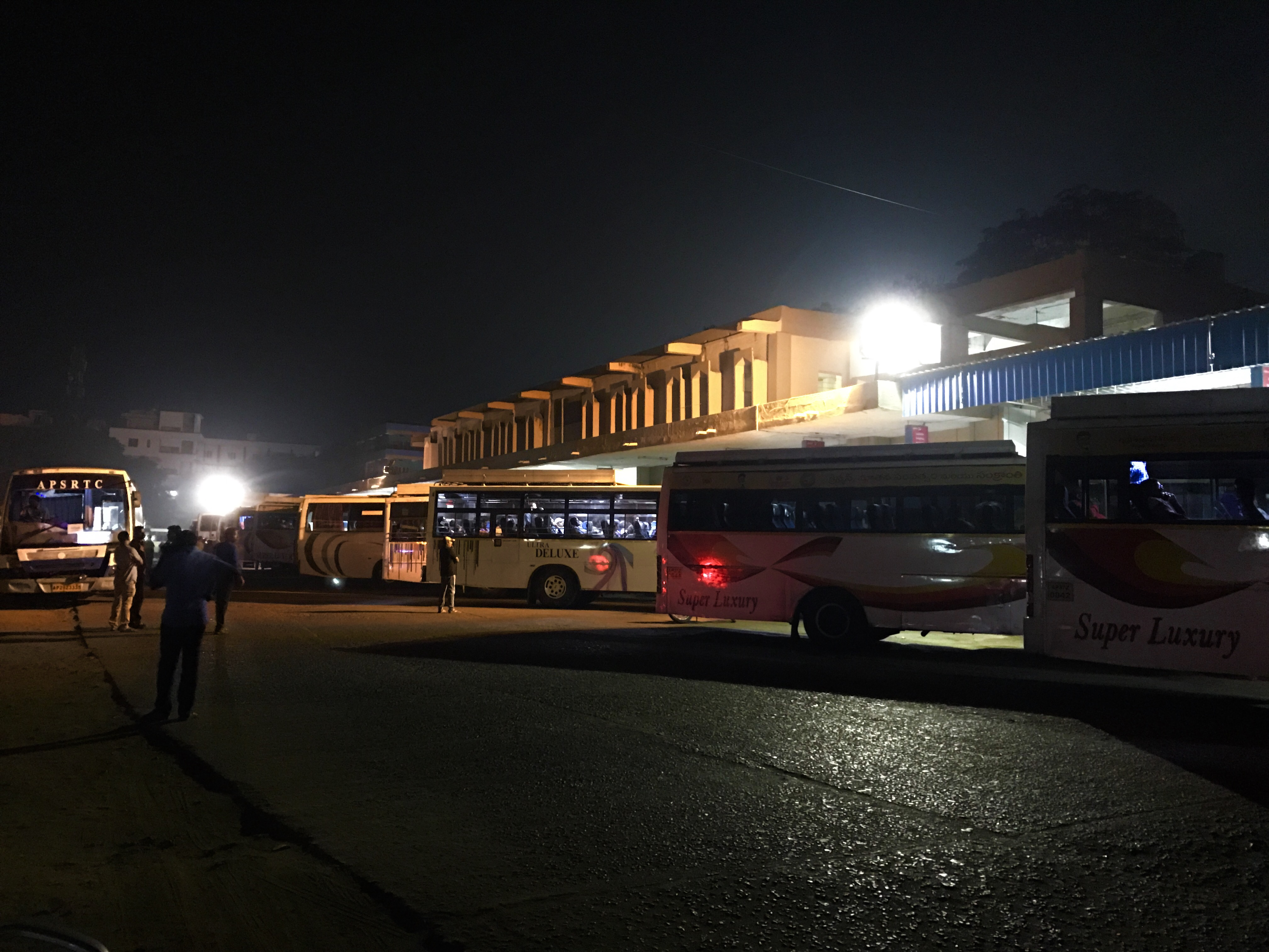 Eluru bus station during night